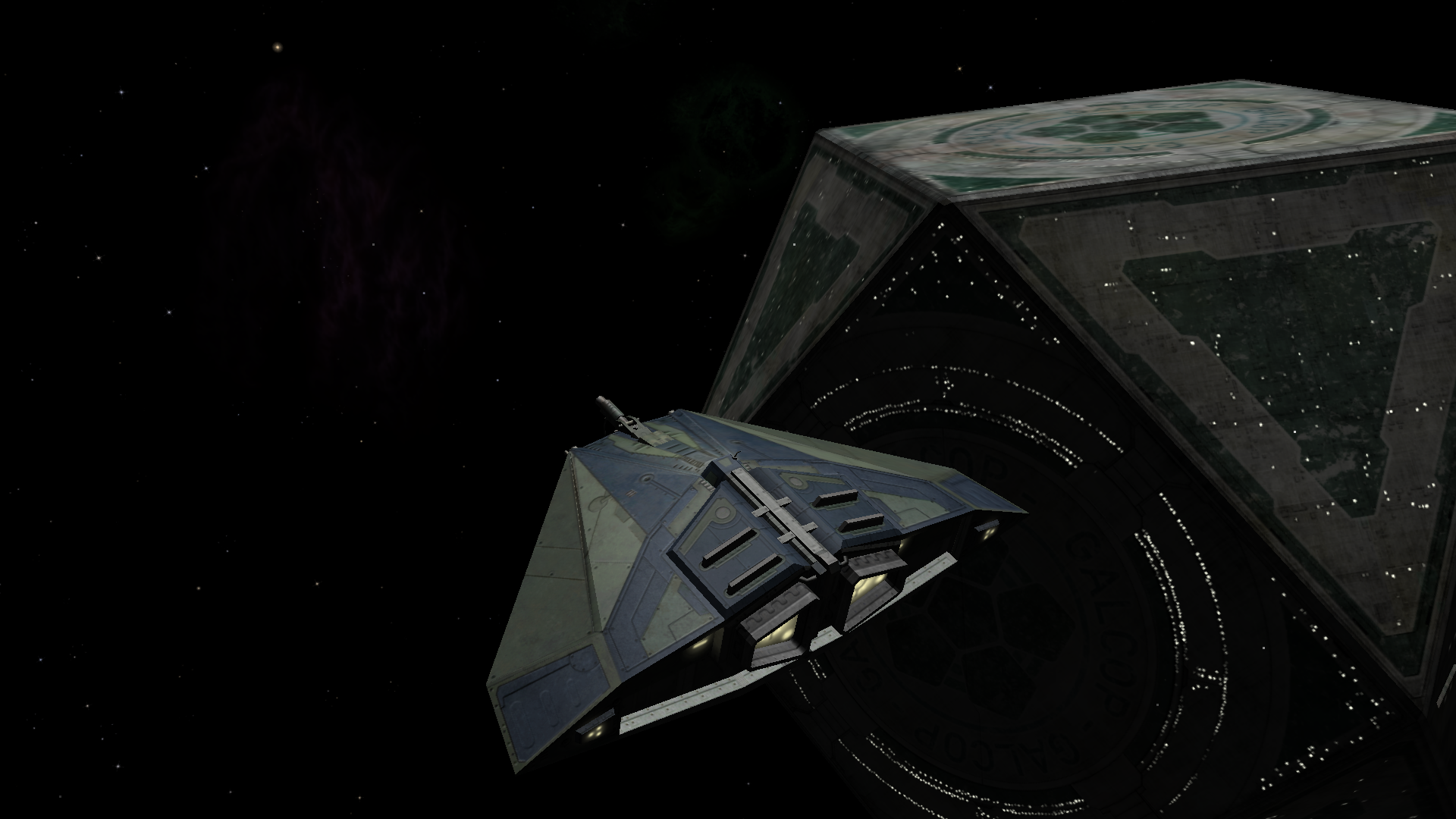 Screenshot of Oolite version 1.84